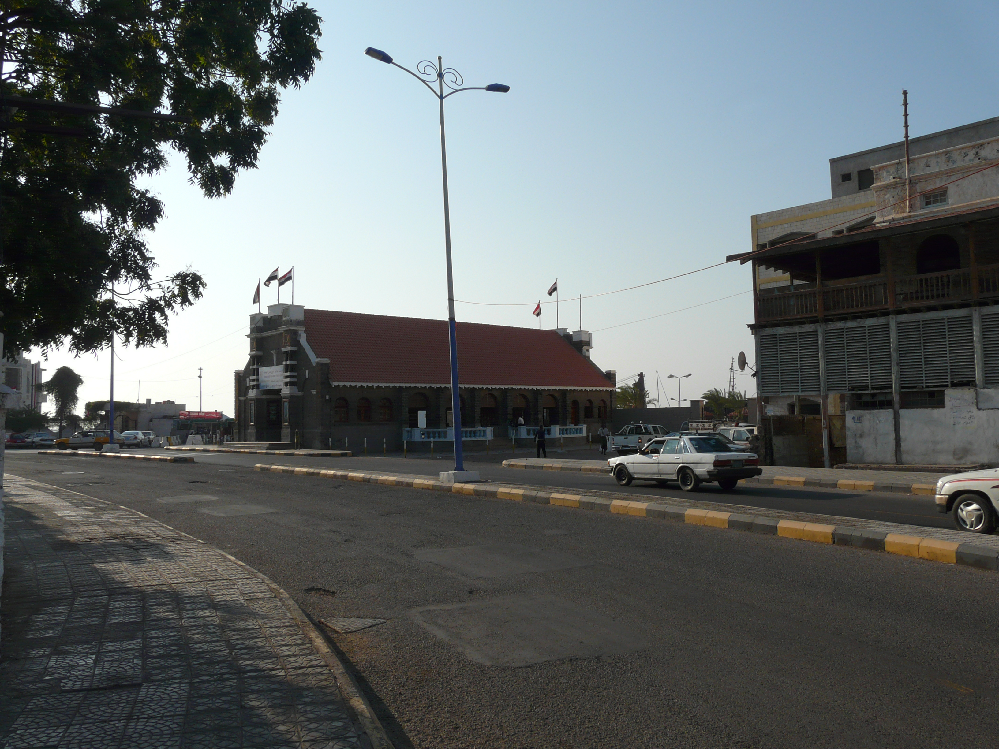 Marine passenger terminal in Aden